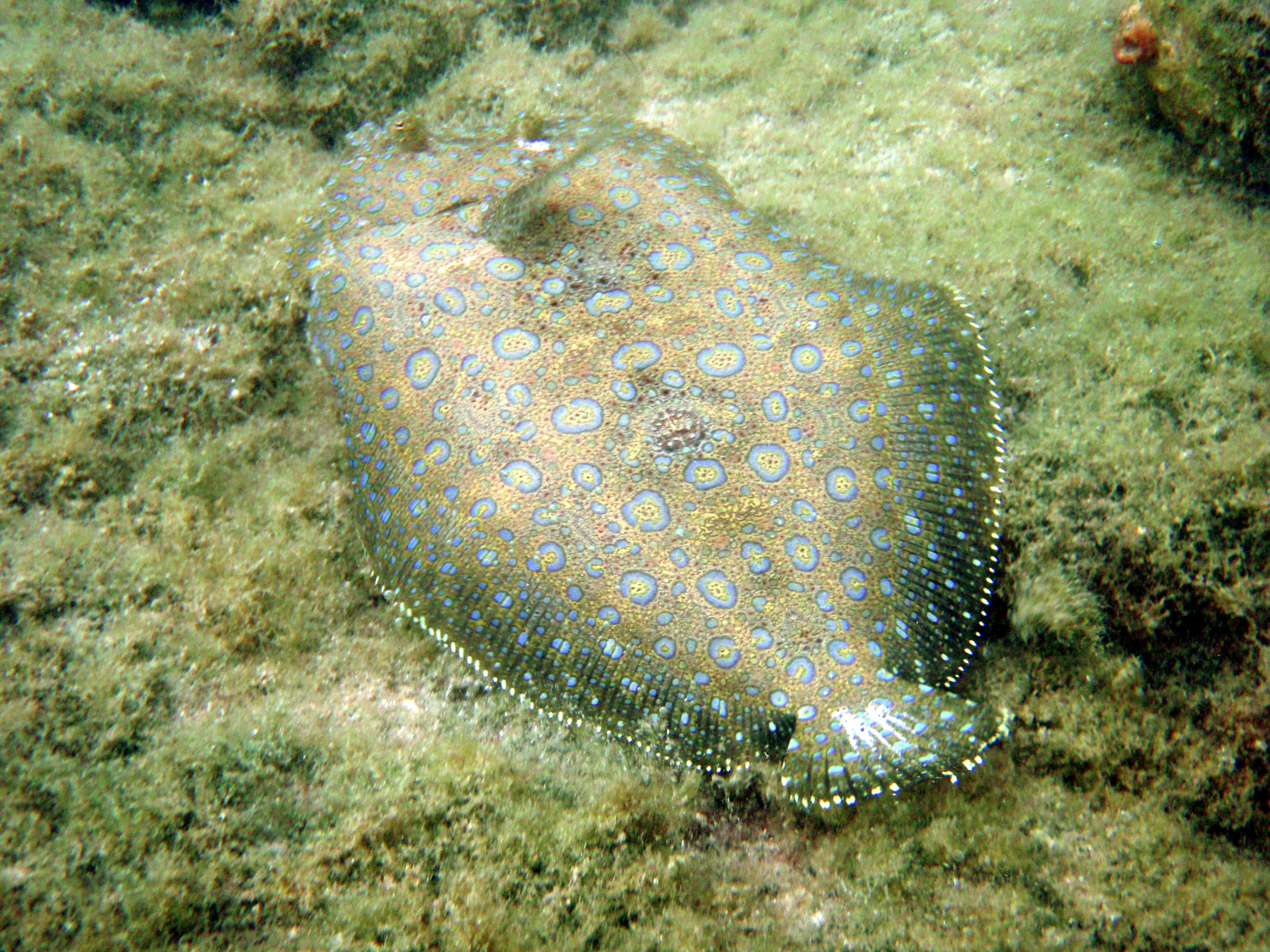 Bothus Mancus, Flowery Flounder